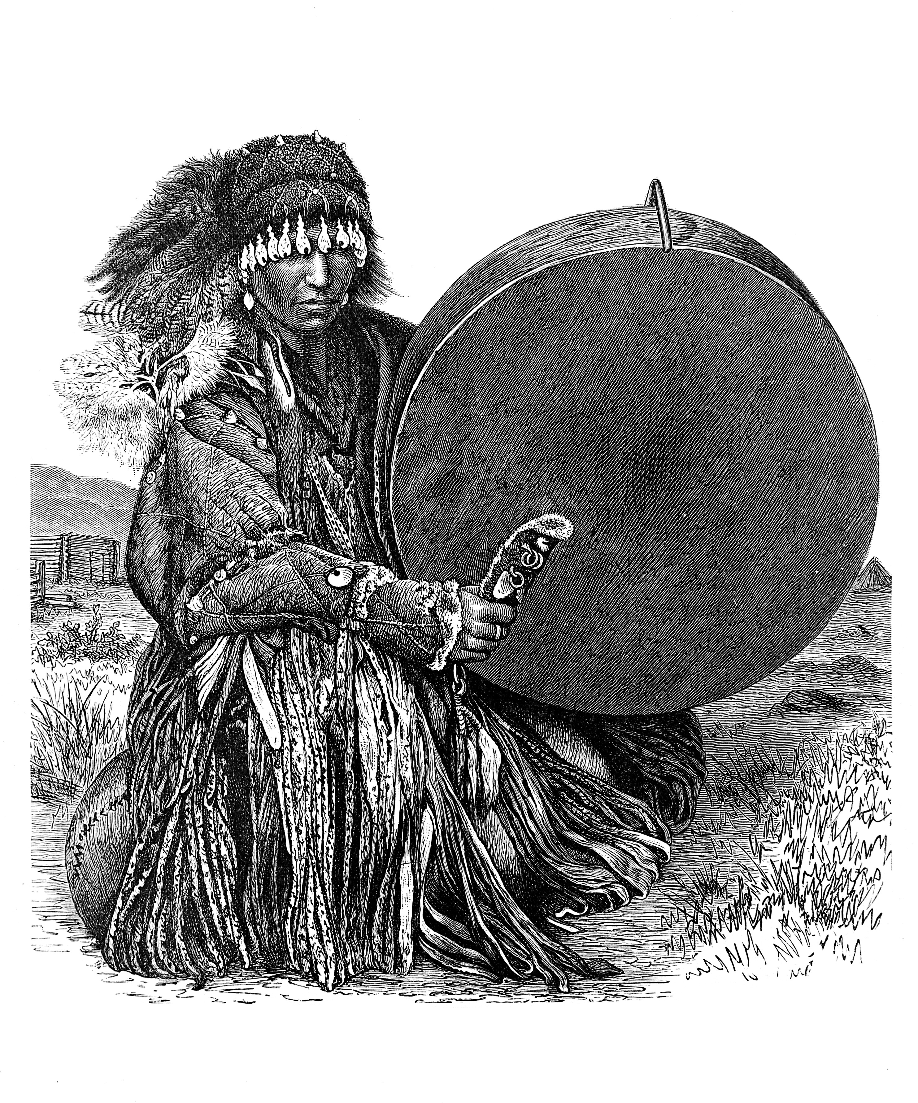 Mongol on Jurkie Shaman with drum, Central Asia Wellcome Images Keywords: non-european cultures; ancient medicine; practitioner and equipment; Ethnography